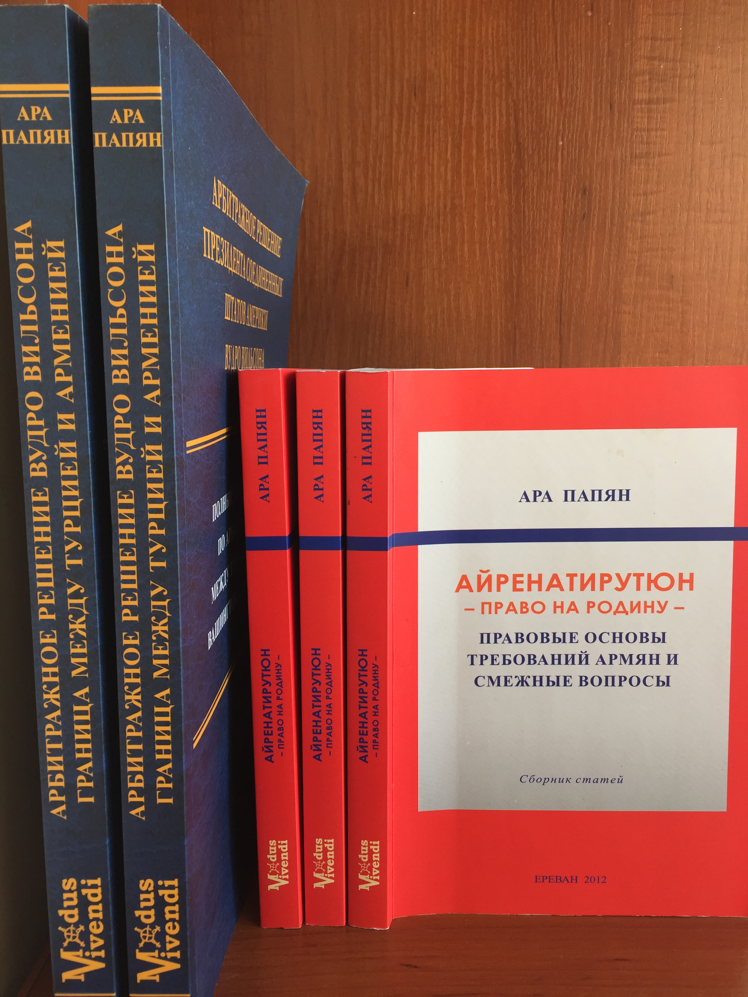 “Hayrenatirutyun” (Possession of homeland) is a book written by diplomat, jurist Ara Papian, which includes 118 articles and legal acts on the Armenian Genocide The work written in a scientific and at the same time journalistic style, as well as quotations from international decisions and treaties.